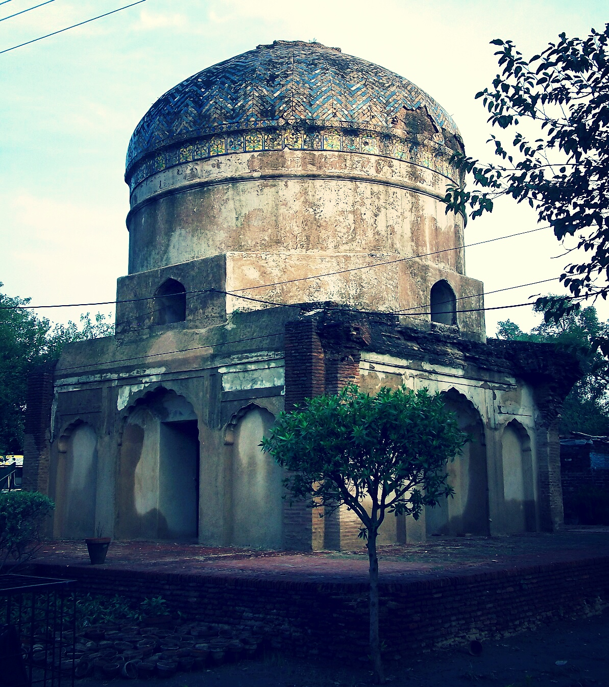 Buddhu's Tomb (Buddhu Ka Awa) This is a photo of a monument in Pakistan identified as the PB-45